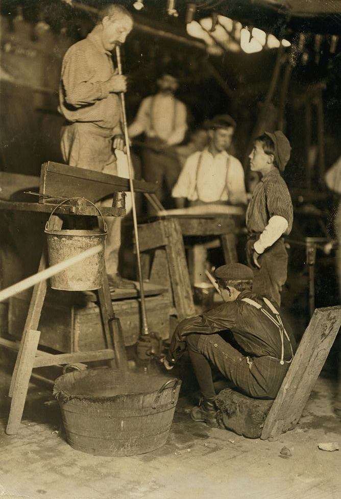 In 1954 the Library received the records of the National Child Labor Committee, including approximately 5,000 photographs and 350 negatives by Lewis Hine. In giving the collection to the Library, the NCLC stipulated that "There will be no restrictions of any kind on your use of the Hine photographic material